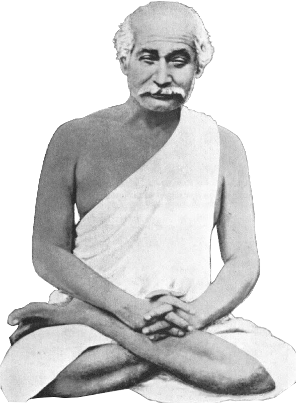 Lahiri Mahasaya transparent.